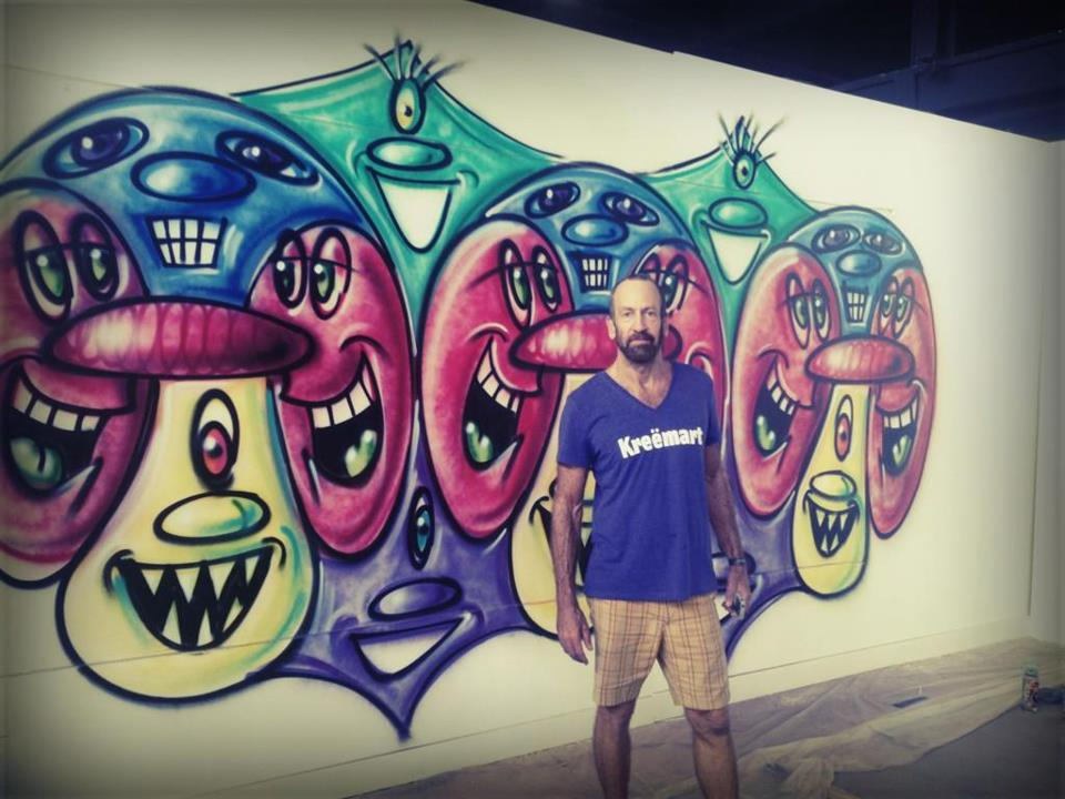 This pictures shows the artist Kenny Scharf standing in front of a mural he painted using spray paint in Brazil 2012.